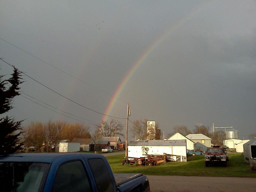 Photo of double rainbow and Richland skyline